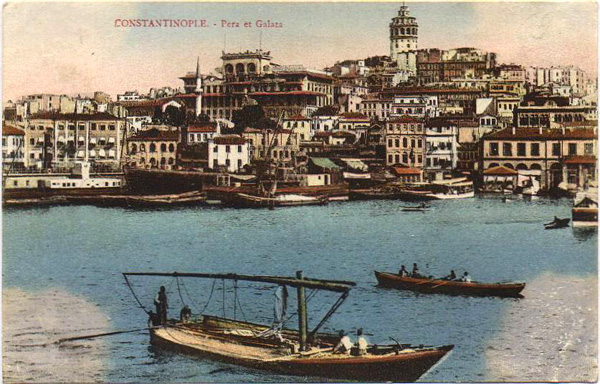 Galata in a 19th century postcard